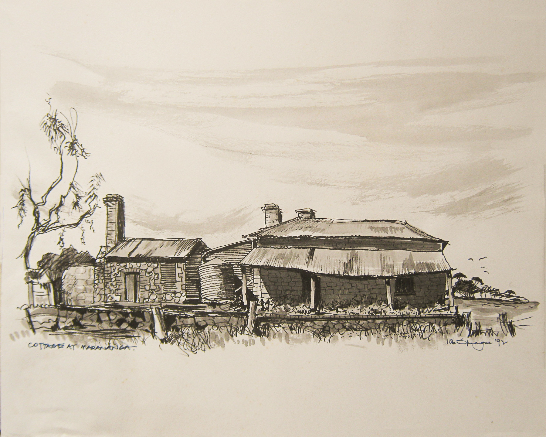 Ink and wash drawing of a cottage at Marananga South Australia by Ian Sprague 1992; photographed in a private collection at Elwood Victoria